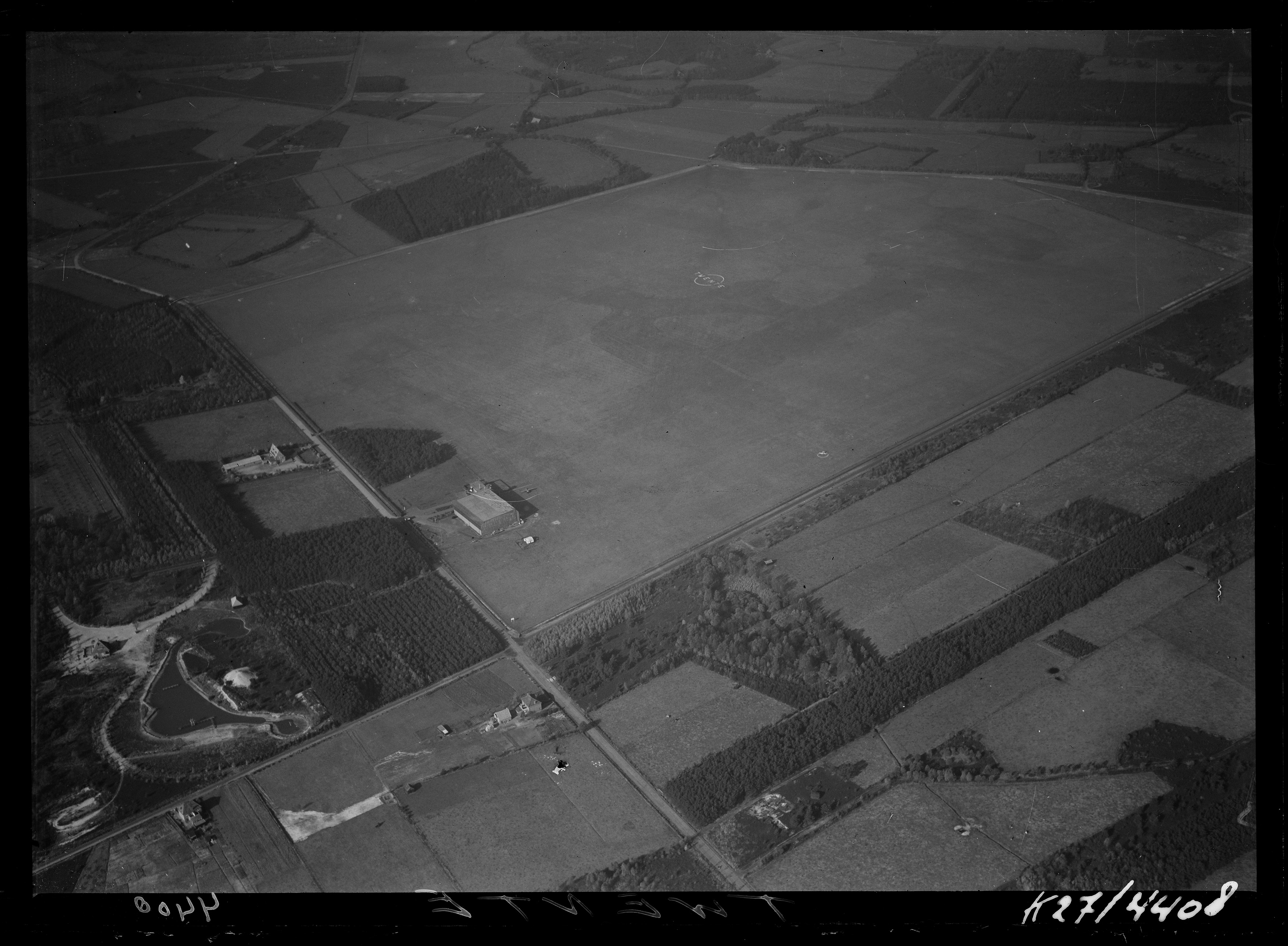 Aerial photograph of Vliegveld Twenthe, The Netherlands.